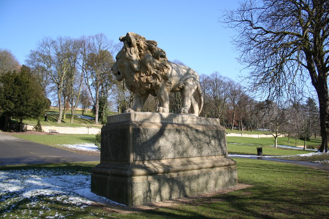 Arboretum Lion. Presented in 1872 by Alderman F.J.Clarke, four times Mayor of Lincoln between 1878 and 1885, he lived at Bracebridge Hall and made his fortune from pharmaceuticals. It has been the subject of practical jokes and pranks several times in the last 130 years such as being painted with stripes. We always thought it was Aslan when we were children !